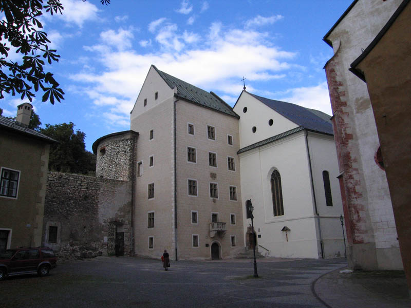 Miners Bastion (Banícka bašta), The Matthias House (Matejov dom), Holy Cross Church (Kostol sv. Kríža) in the City Castle in Banská Bystrica, Slovakia